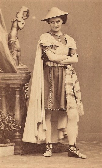 The Belgian opera singer Bernardine Hamaekers in the role of Bénoni in Gounod's La reine de Saba.